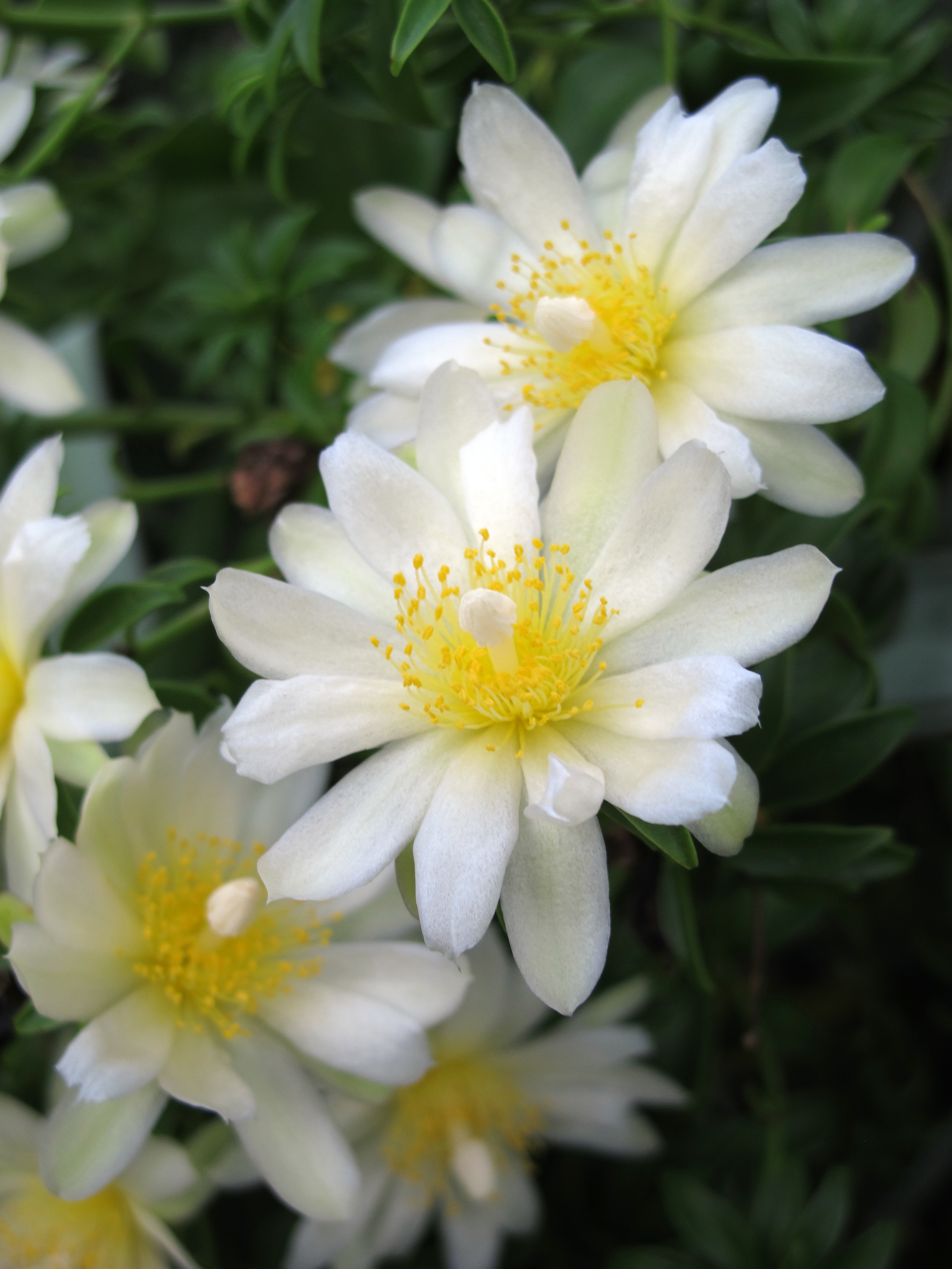 Pereskia aculeata cultivated, South Miami, Florida, USA.